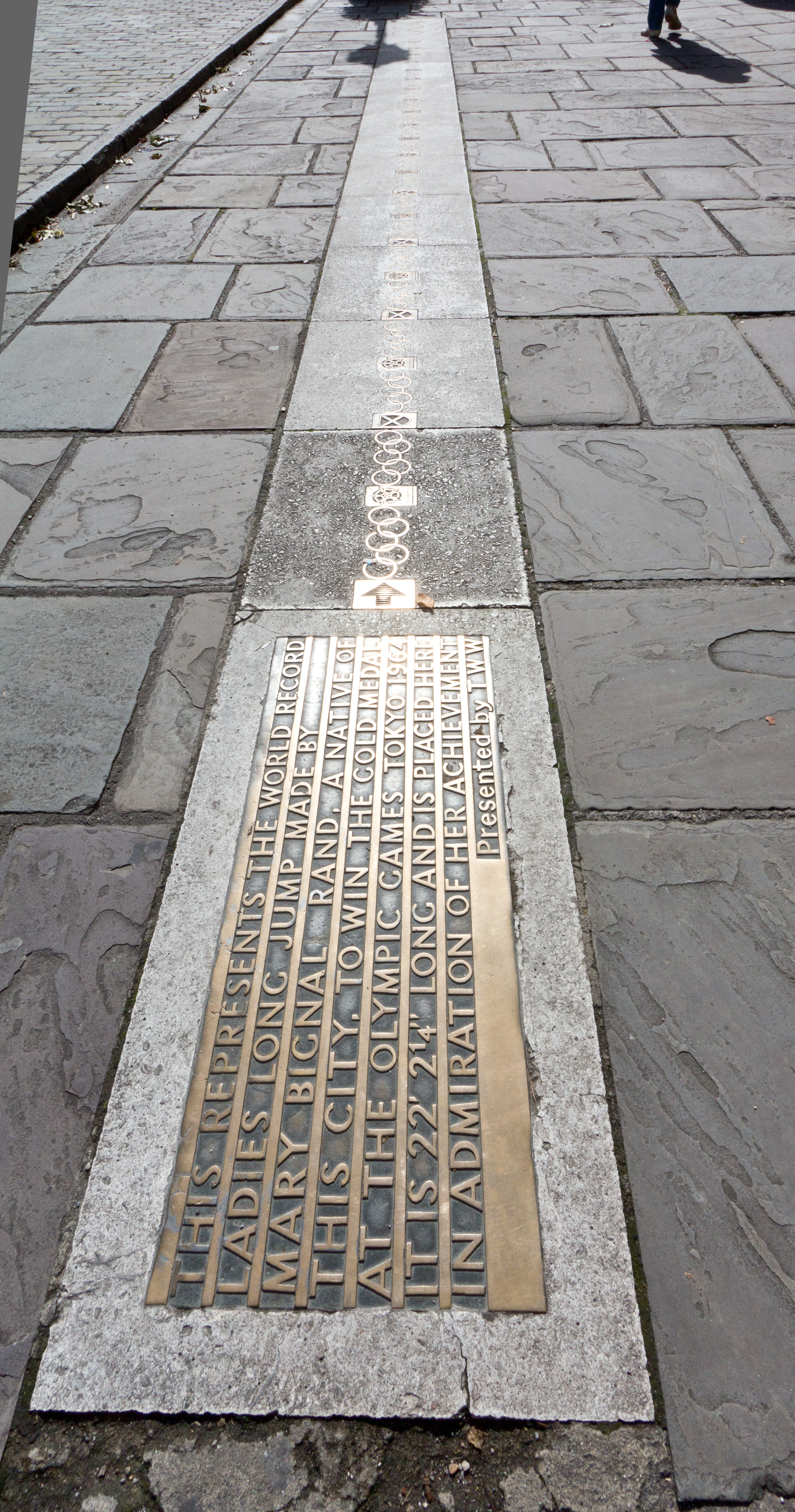 Memorial Plate for Mary Bignal-Rand in Wells, Somerset, representing the distance of her world record jump at the Olympic Games 1964 in Tokyo.